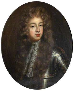 Jonathan Rashleigh (1642-1702), of Menabilly, Cornwall, Sheriff of Cornwall 1687. (previously thought to be Sir John Carew, 1635–1692, 3rd Bt) by British (English) School Date painted: c.1685/1690. Oil on canvas, 34 x 27 cm National Trust, Collection of Antony House, Torpoint, Cornwall